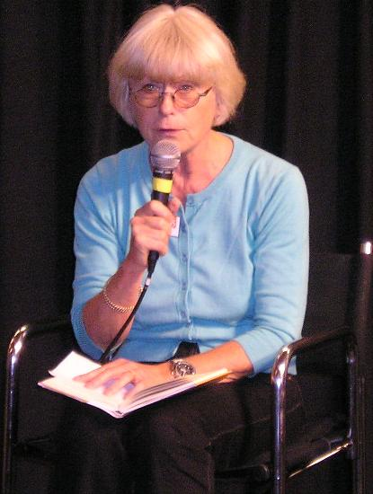 Cecilia Torudd Picture taken at Gothenburg Book Fair 2005 by Lennart Guldbrandsson